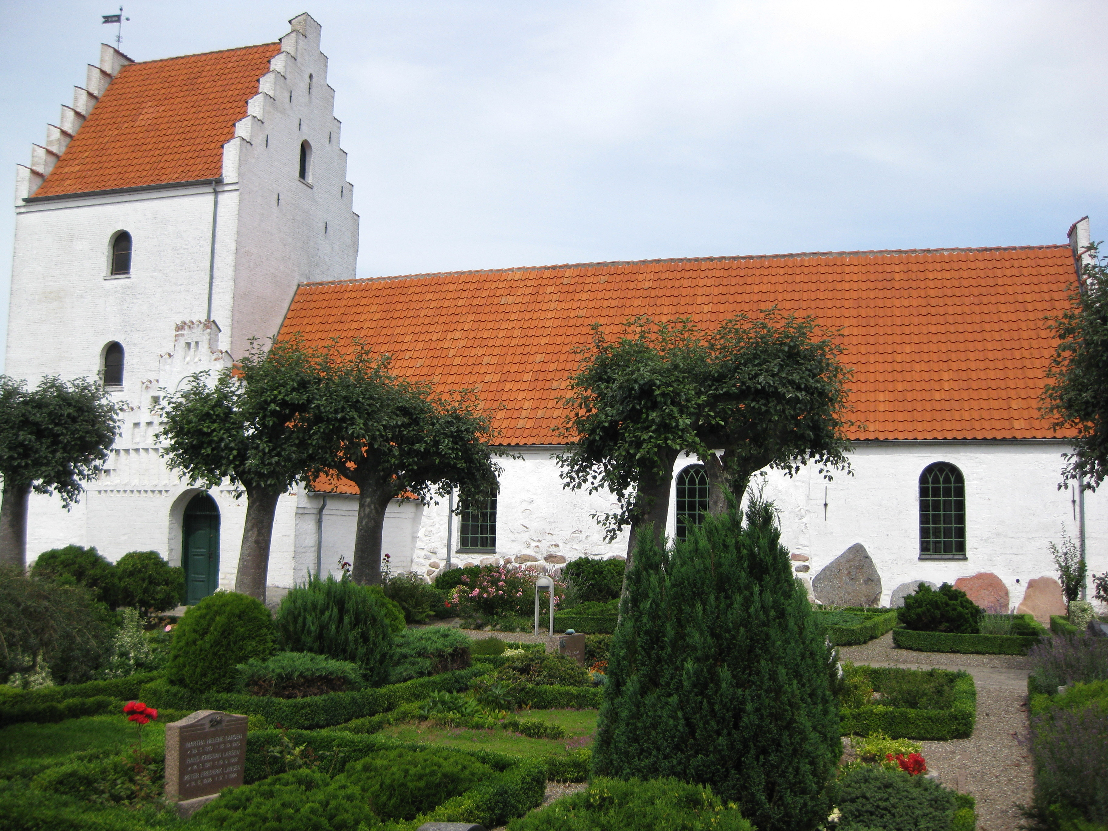 The church "Bogø Kirke" on the small island "Bogø" (north of the island Falster) in east Denmark.